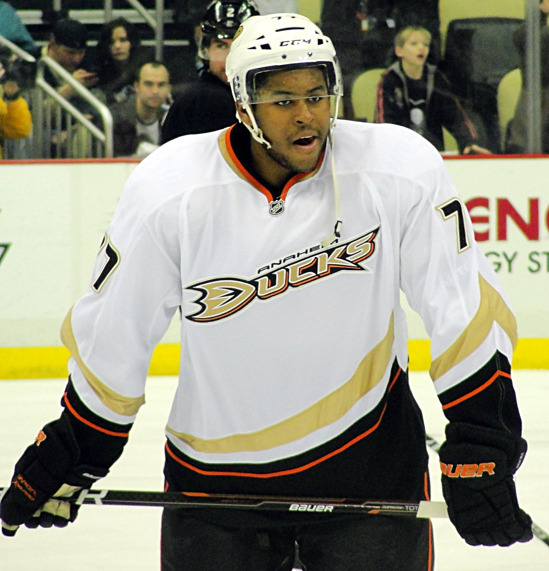 Devante Smith-Pelly of the Anaheim Ducks skates against the Pittsburgh Penguins, February 15, 2012 at Consol Energy Center in Pittsburgh, PA.